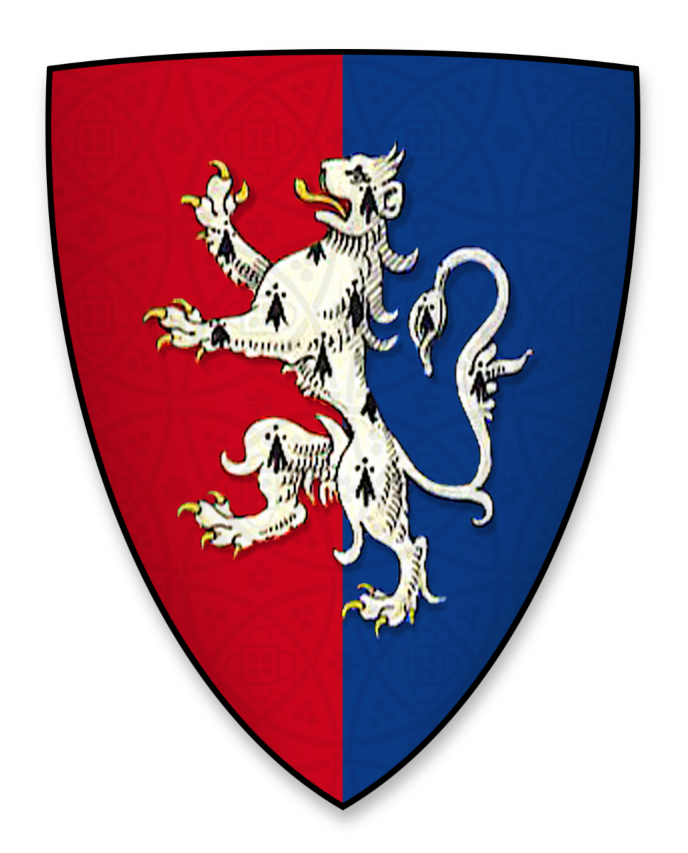 Coat of arms of Hugh Bigod, Heir to the Earldoms of Norfolk and Suffolk